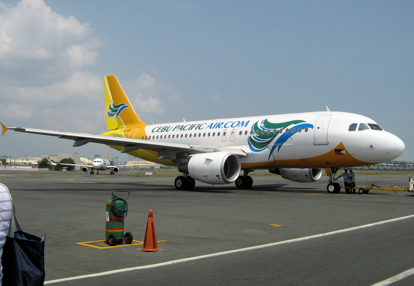 A Cebu Pacific airplane on the ramp of the Ninoy Aquino International Airport, near the domestic terminal. Registration possibly RP-C3198